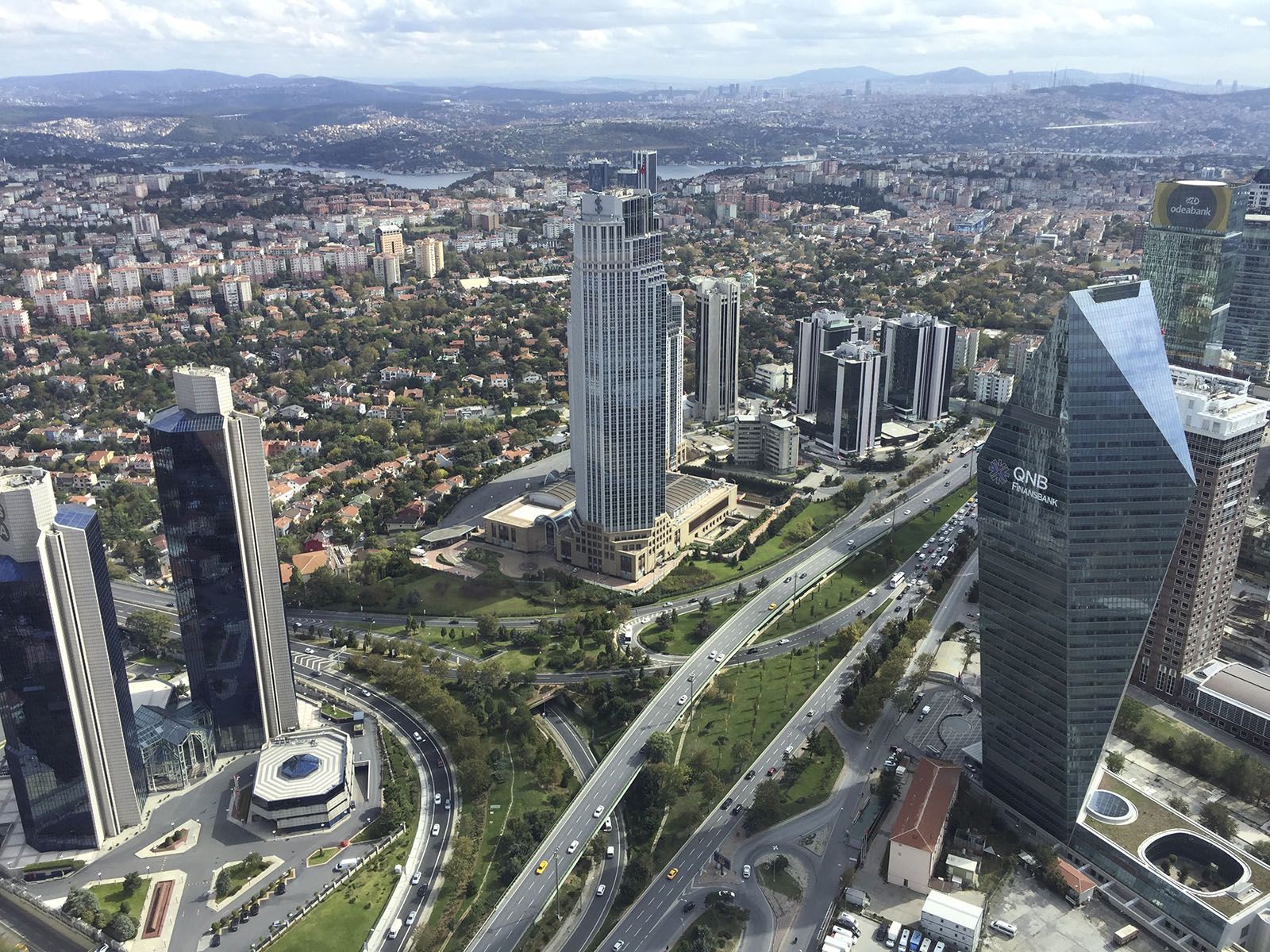 The building houses a big shopping mall, lots of offices, and a platform from where one has great views (visitable, but not for free). This is a picture of nearby buildings. To the right the Krystal Building, to the left the buildings of the Iş Banksı.